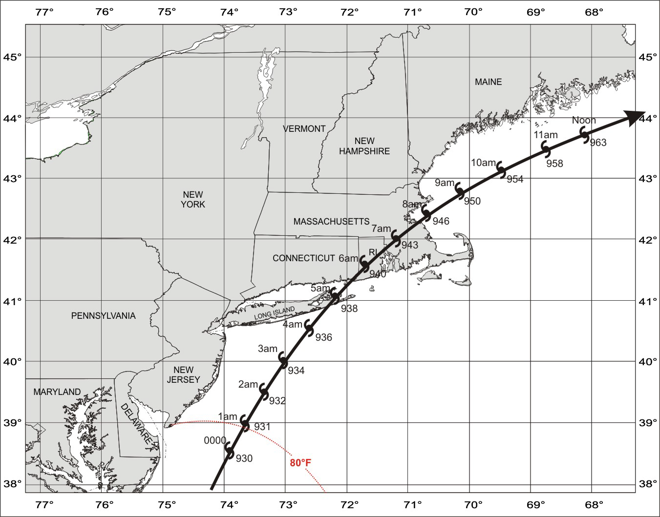 Track of the Great Colonial hurricane of 26 August 1635, with hourly positions in local standard time and central pressure in millibars. Possible 80°F SST isotherm also shown.